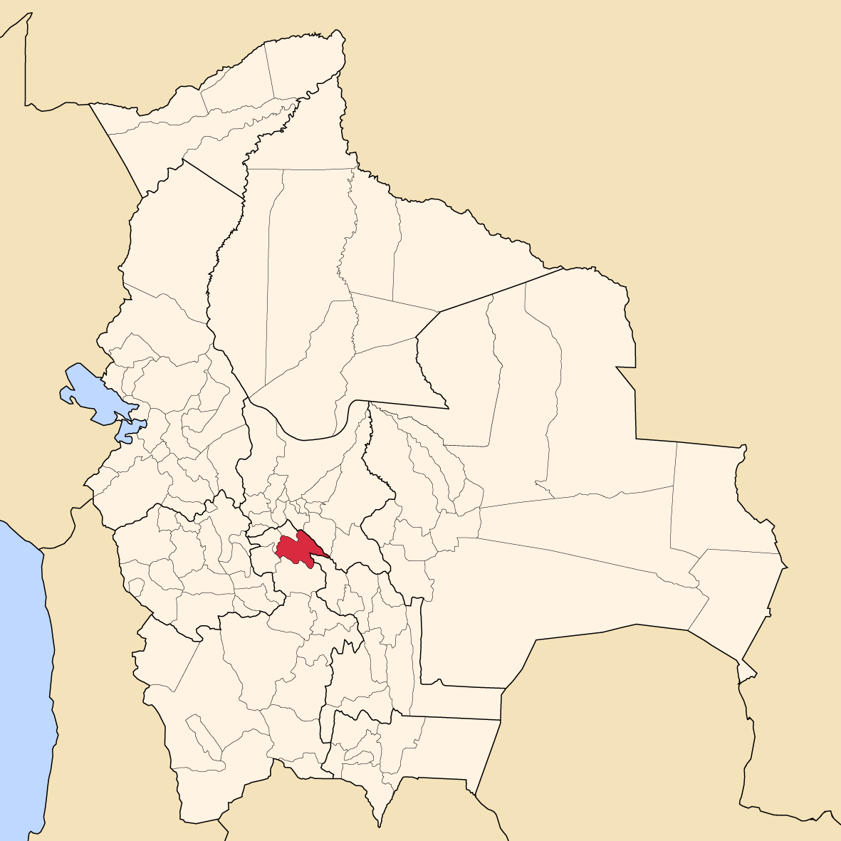 Map of Bolivia showing Charcas province, Potosí